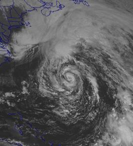 Hurricane Grace near Bermuda on October 28, 1991.